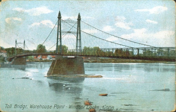 Postcard picture of toll bridge crossing Connecticut River at Windsor Locks, store Web page states postmarked 1910